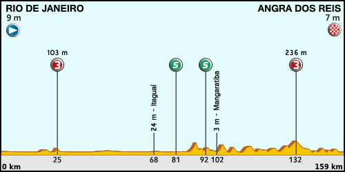 Profile of the 1st stage of the 2012 Tour do Rio